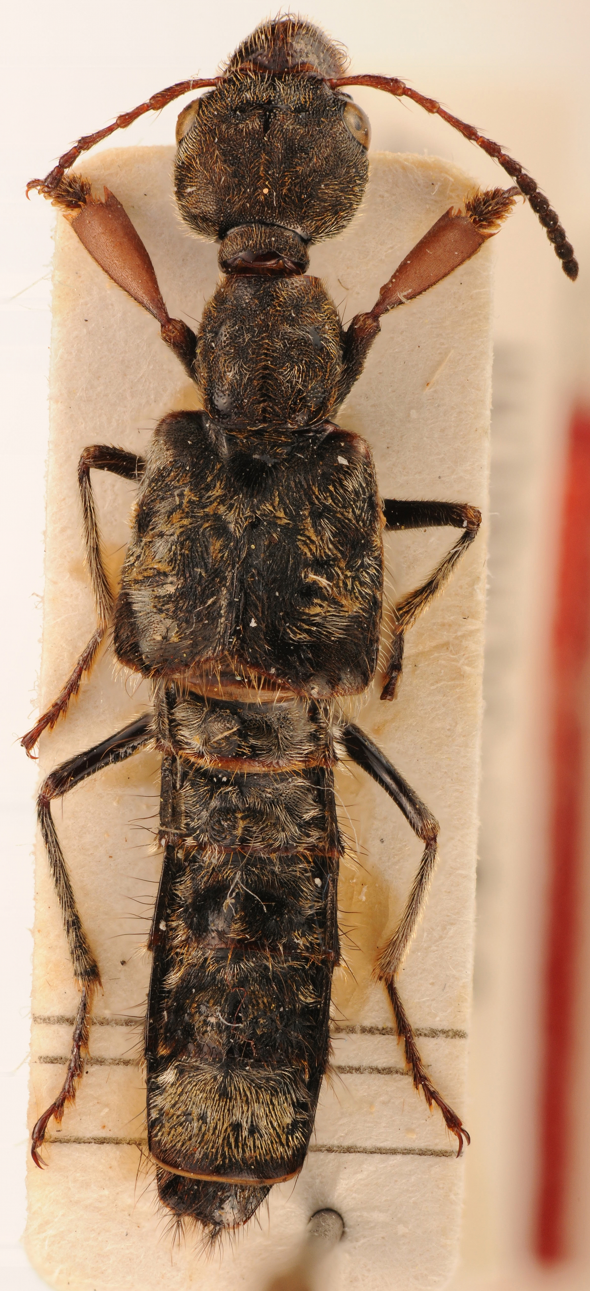 Holotype of Eucibdelus nepalensis Scheerpeltz, 1976 in Zoologische Staatssammlung Munich (ZSM)